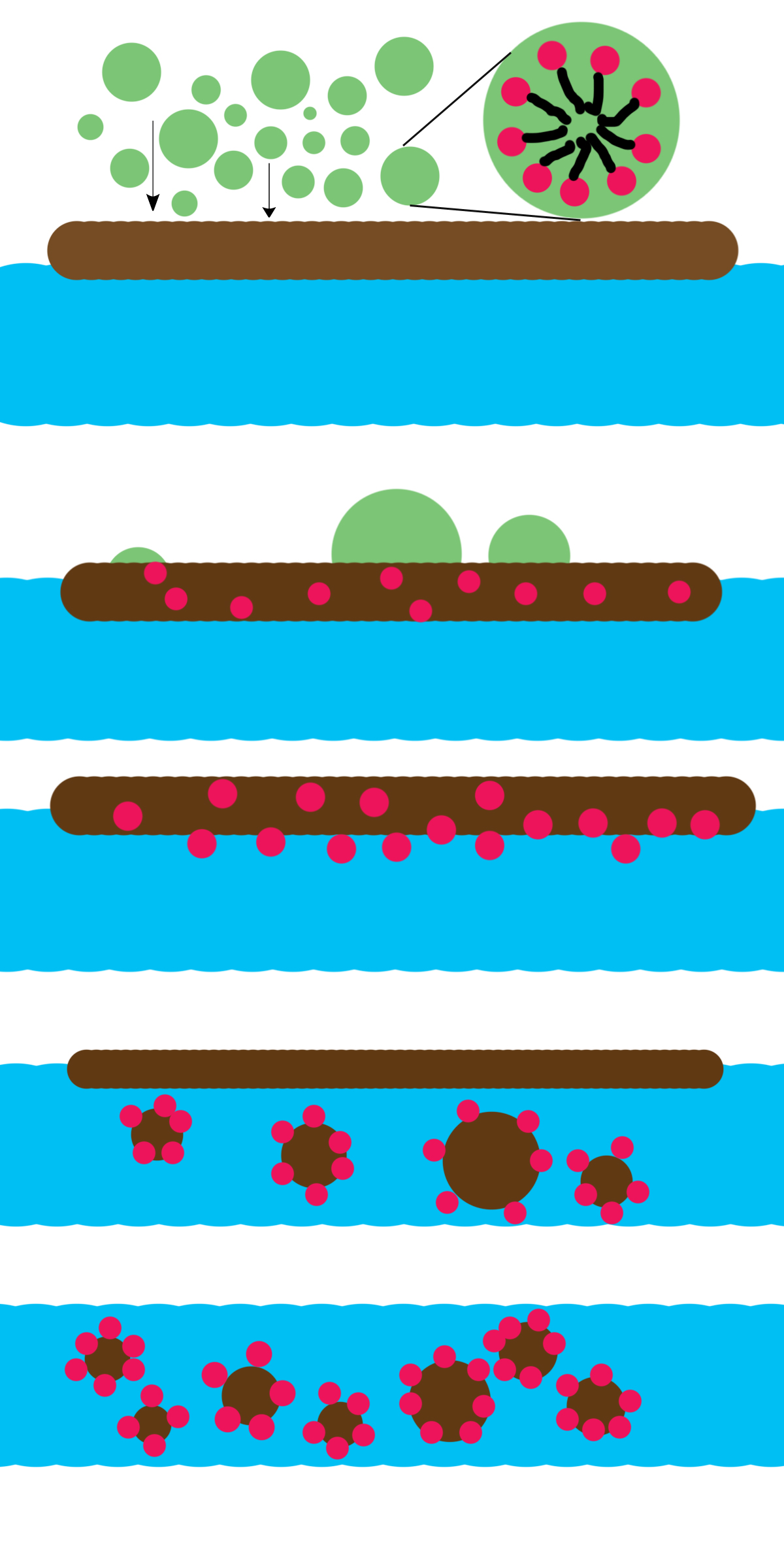 Brown represents oil. Blue is water layer Green is dispersant Pink represents surfactants